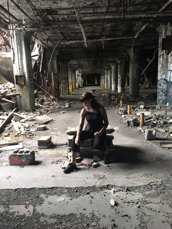 Rebecca Bathory in Detroit USA 2016